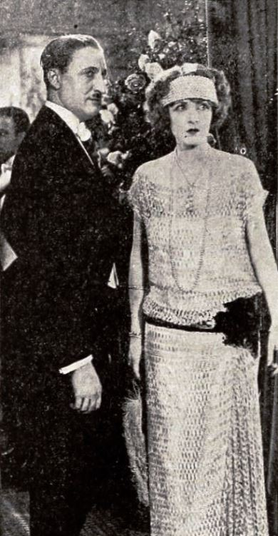 Still from the American drama film Little Church Around the Corner (1923), incorrectly captioned in the magazine as The Church Around the Corner, on page 398 of the January 20, 1923 Exhibitor's Trade Review.